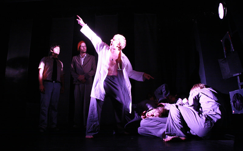 Photo of parts of the theatrical ensemble 'Lunds nya Studentteater' during the autumn 2006 play of 'Dante's Divina Commedia'.